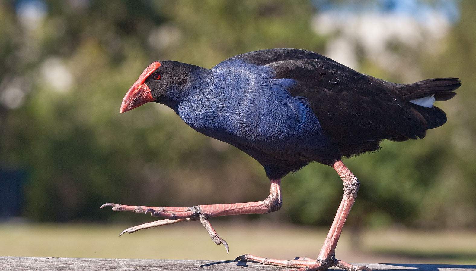 In the wild at Sydney Park, Alexandria (suburban Sydney), Australia 20100512-IMG_9407